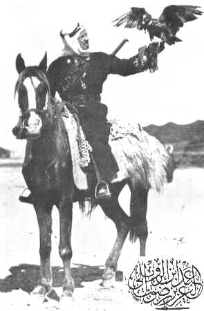 Carl Raswan (1893-1966) with falkon